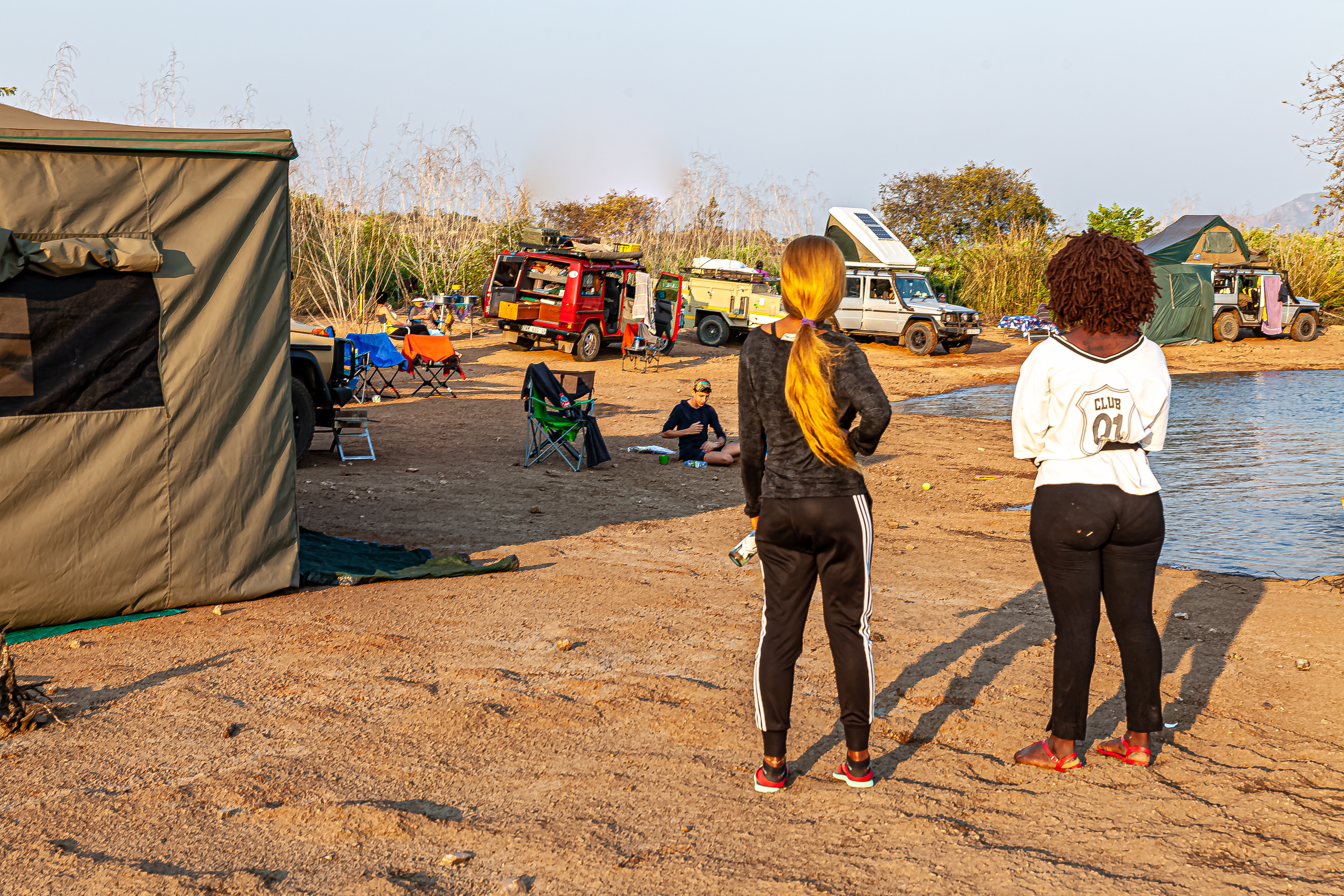 Local Angoliance staring at South African Travelers This is an image with the theme "Africa on the Move or Transport" from: Angola